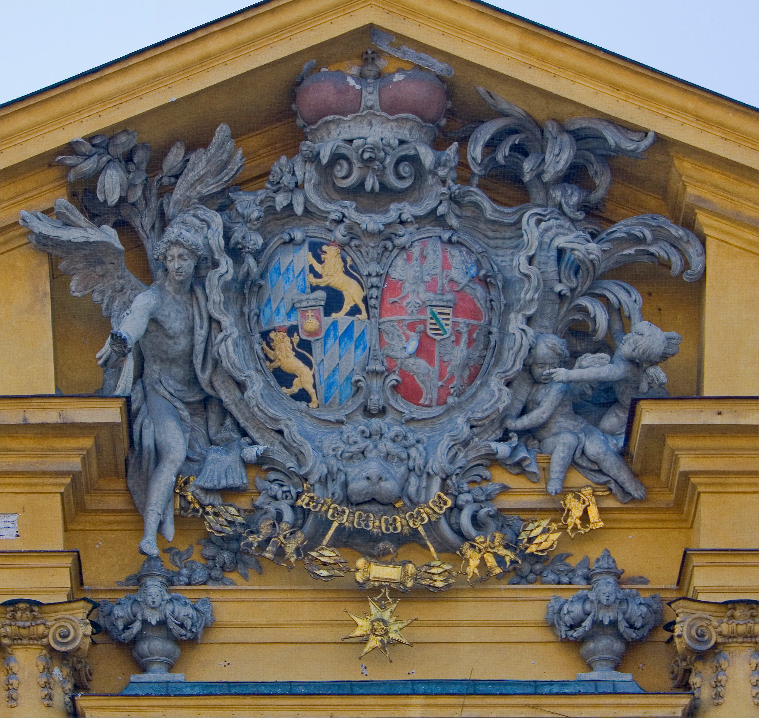 Theatinerkirche, Munich, Germany. The CoA of, left, Maximilian III Joseph, Elector of Bavaria, Archi Seneschal of the HRE, and right, the CoA of his wife, Maria Anna Sophia of Saxony, daughter of Augustus III of Poland, Elector of Saxony.